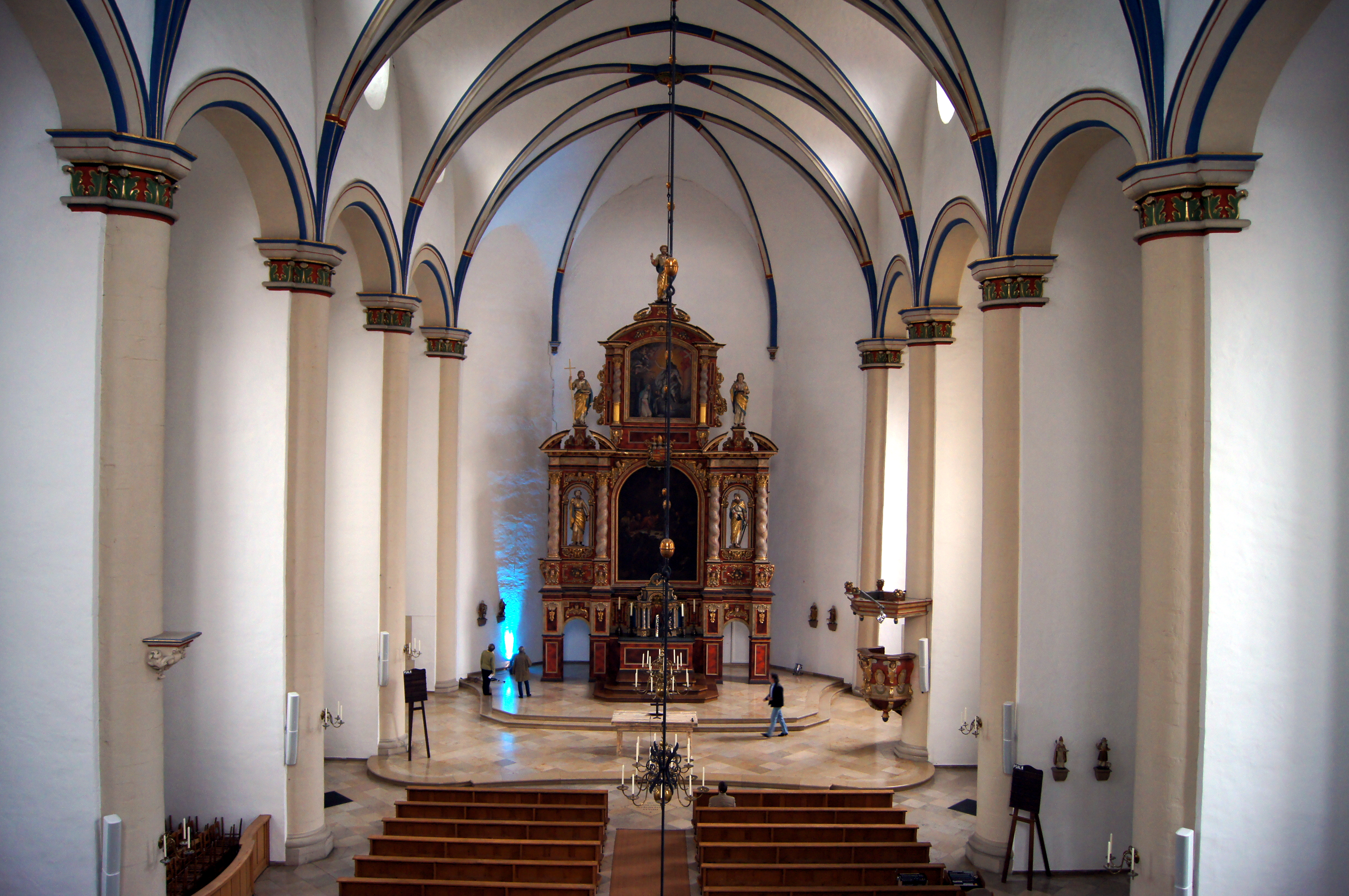 Formerly Jesuit church in Coesfeld, NRW, Germany. View from the organ loft.